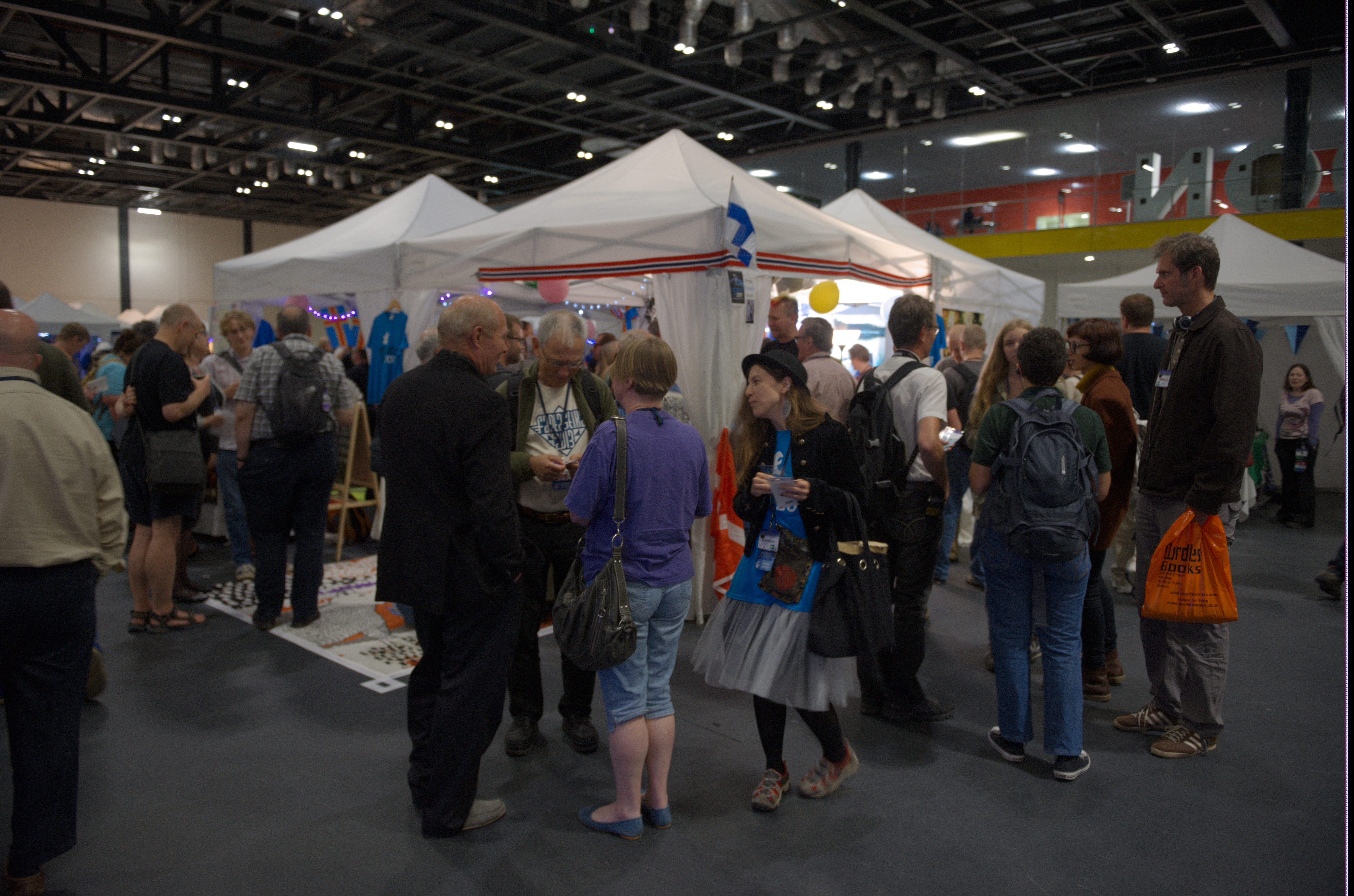 The Scandinavian party at Loncon, Worldcon 2014.